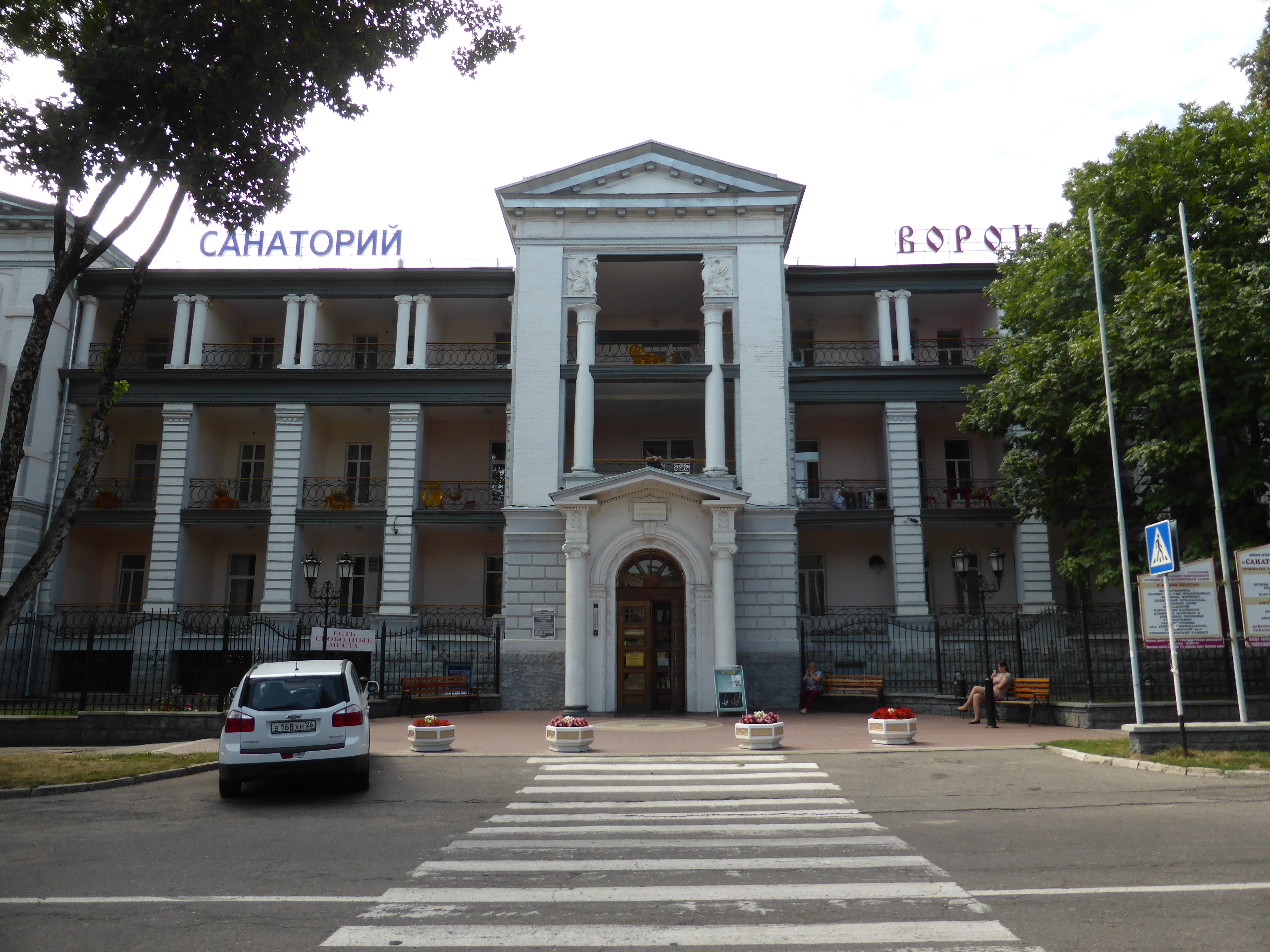 Sanatorium Azau